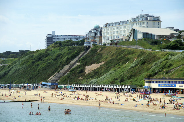 The West Cliff Railway at Bournemouth, Dorset, England. For more information see the Wikipedia article West Cliff Railway .